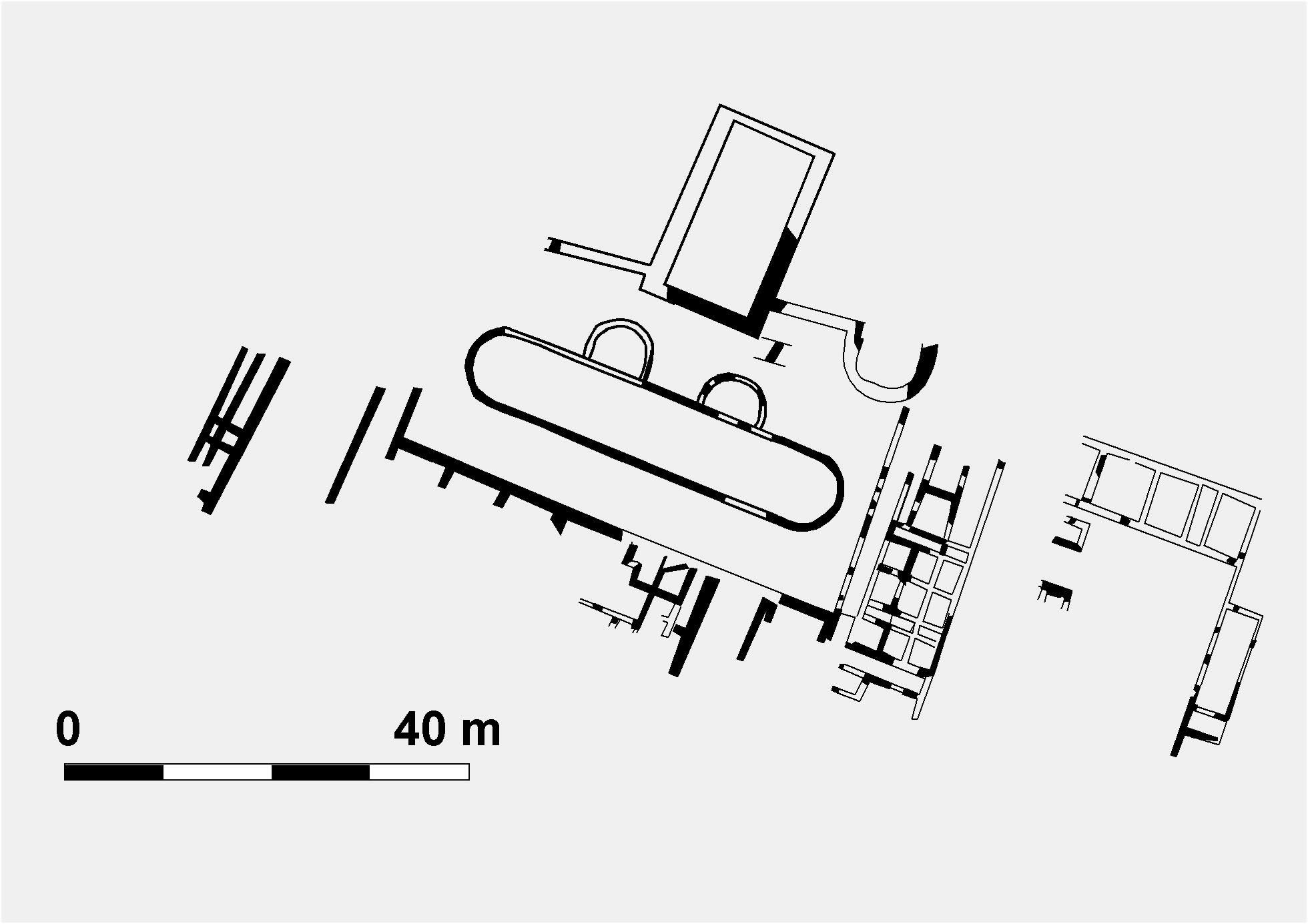 Remains of the Praetorium in London (Roman)